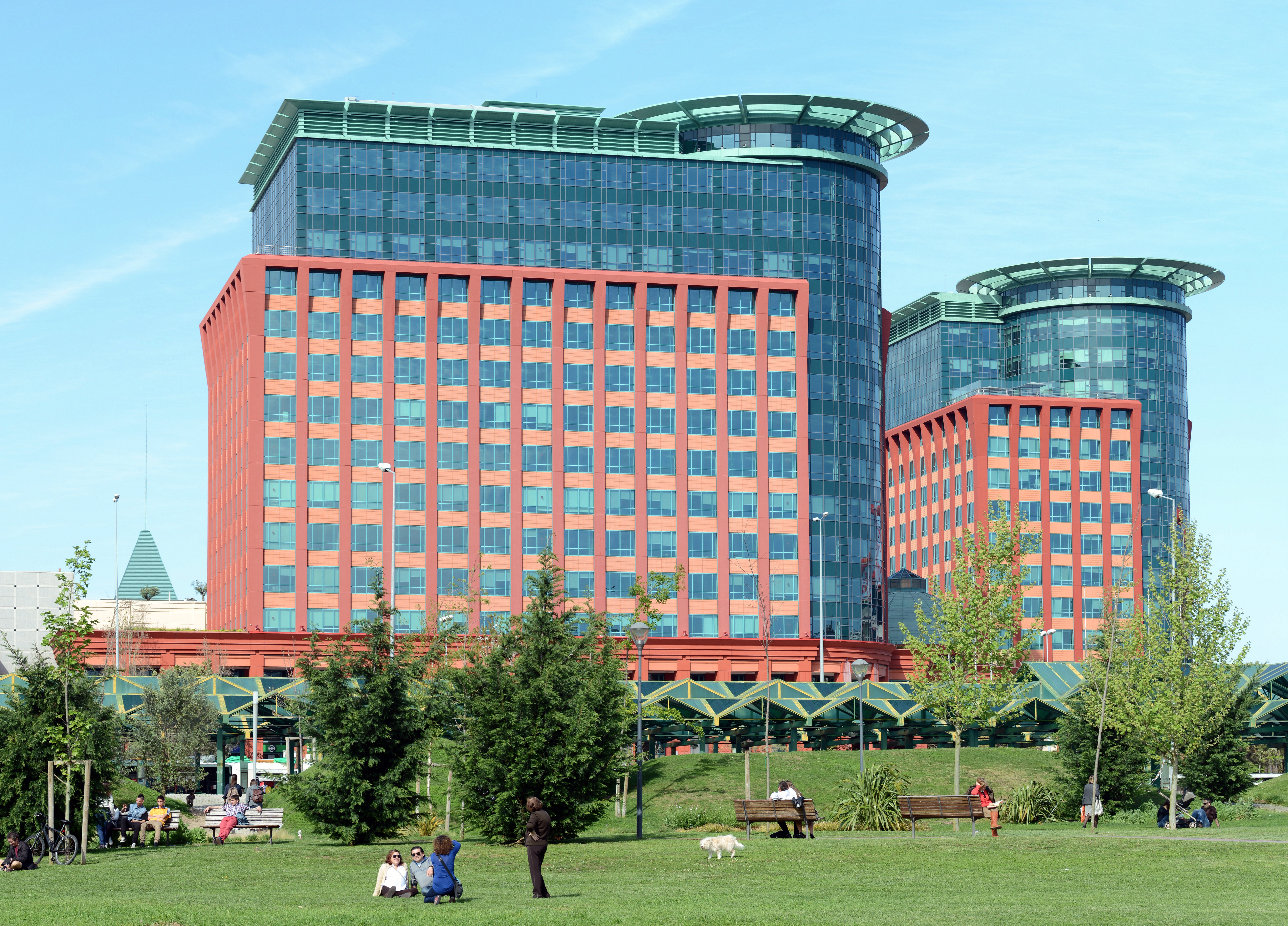 Buildings in the Colombo shopping mall, Lisboa, Portugal.